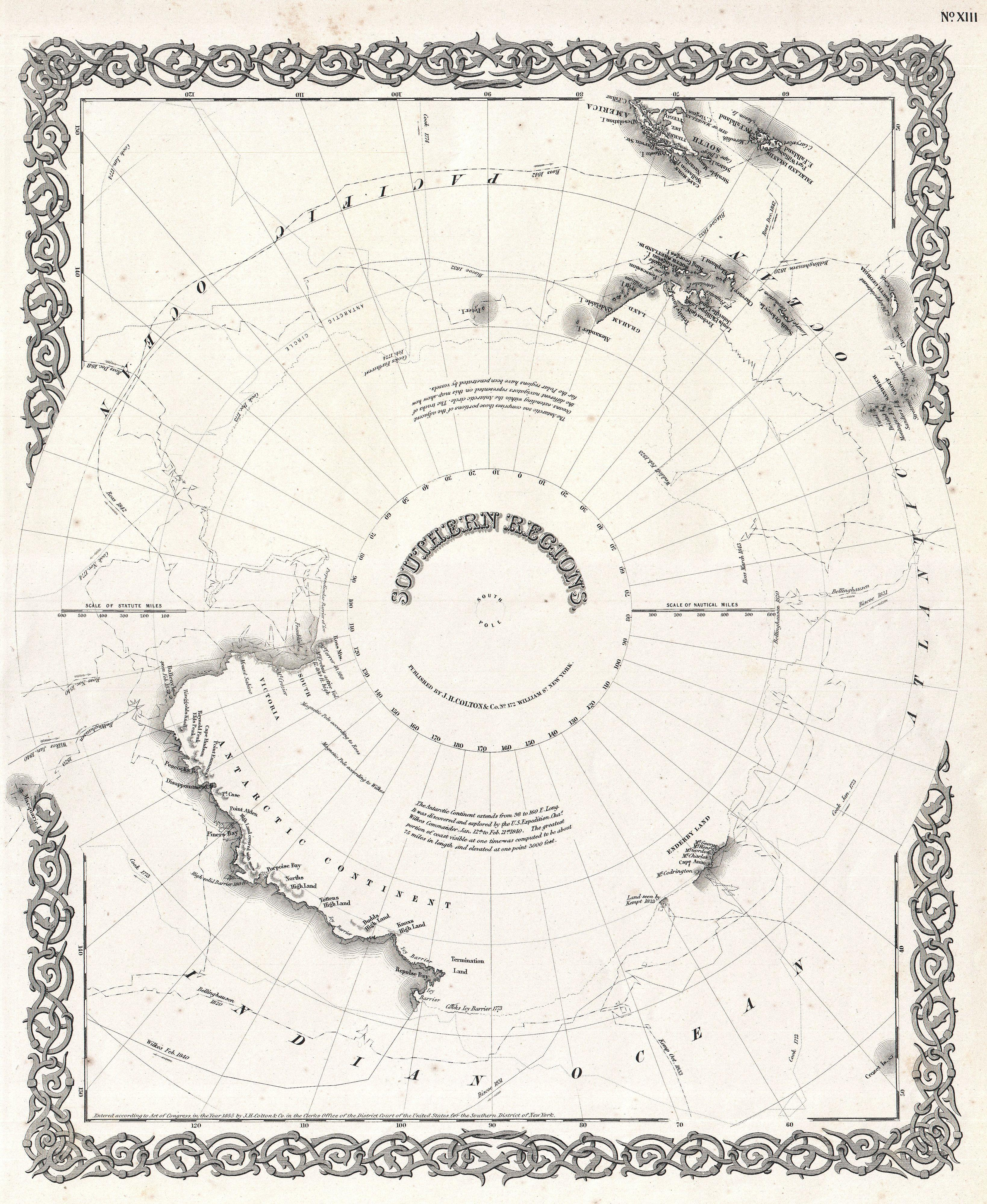 An excellent example of Colton’s c. 1855 map of the South Pole, Antarctica, or the Southern Polar Regions. Sows the Great Southern Continent with both solid and tentatively sketched in borders. Notes the travels of important Antarctic explorers of the previous 20 years or so, including Wilkes (1840), Bellinghausen (1820), Ross (1840 - 1843), KIempt (1833), Cook (1773 - 1774 ) and Biscoe (1831). Generally gives an excellent overview of the state Antarctic exploration and discovery around 1855. Prepared by J. H. Colton as map no XIII in the 1855 or 1856 edition of Colton's Atlas of The World . Published from Colton’s 172 William Str. Office in New York.